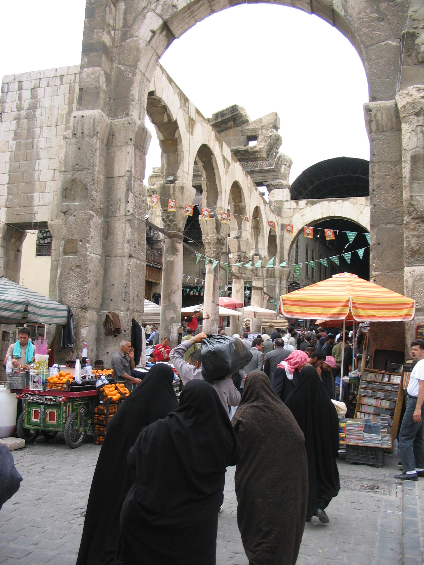 Remains of the Byzantine church and of the Jupiter Temple, Damascus in 2006